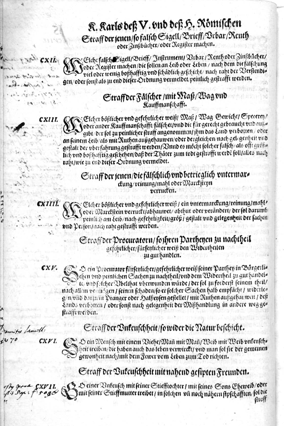 This is a scan of the historical document